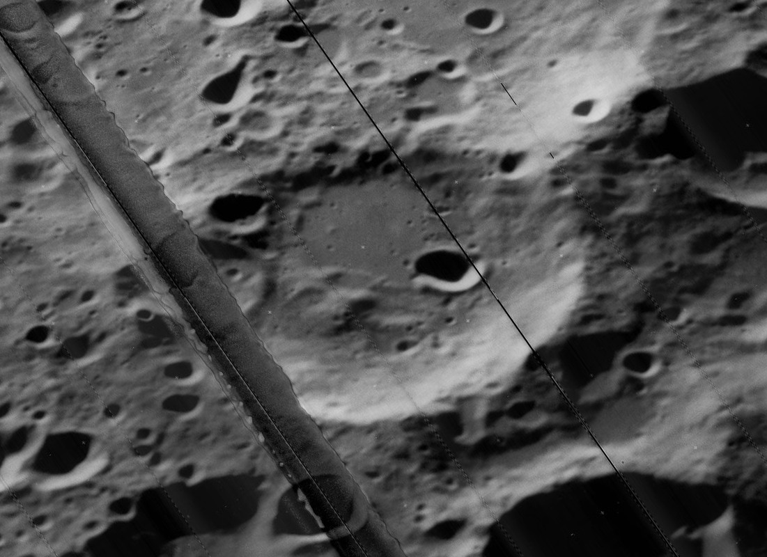 Oblique view of Von Zeipel, on the far side of the moon, facing west. Band crossing image is artifact of original.